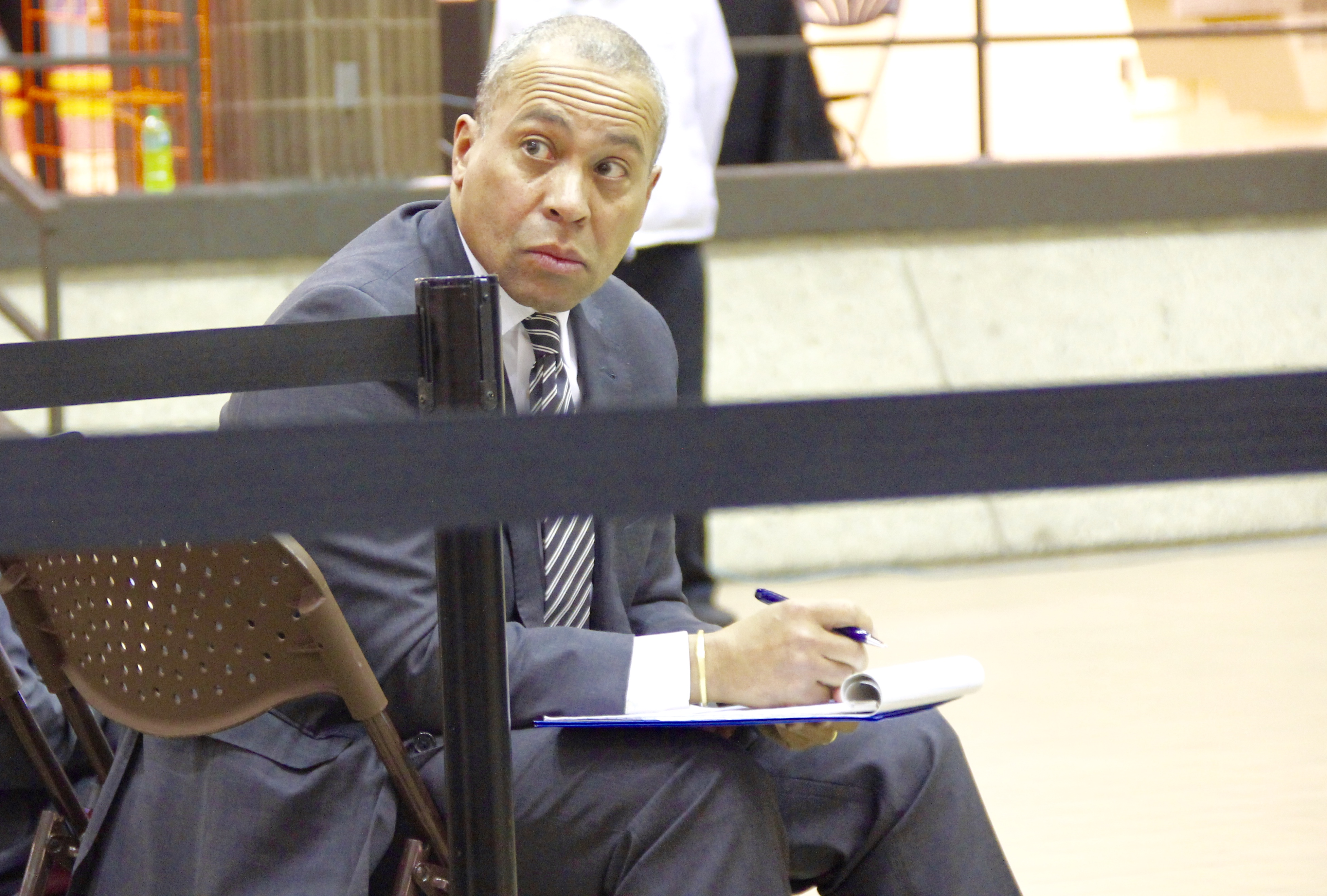 Benito Juarez High School, February 25, 2016